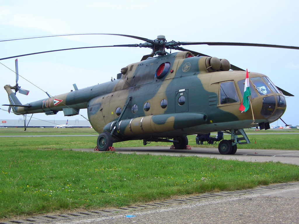 Mi-17 of Hungarian Air Force.